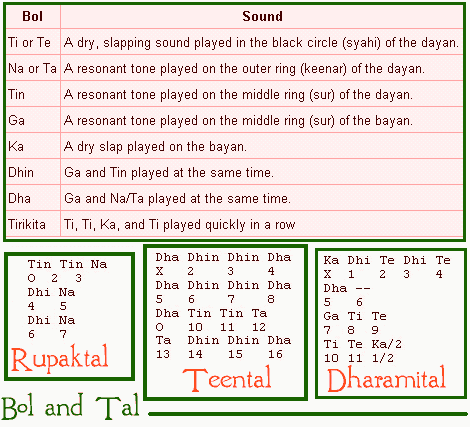 raster image of wikitable for formatting purpose - diagram re Indian rhythm.